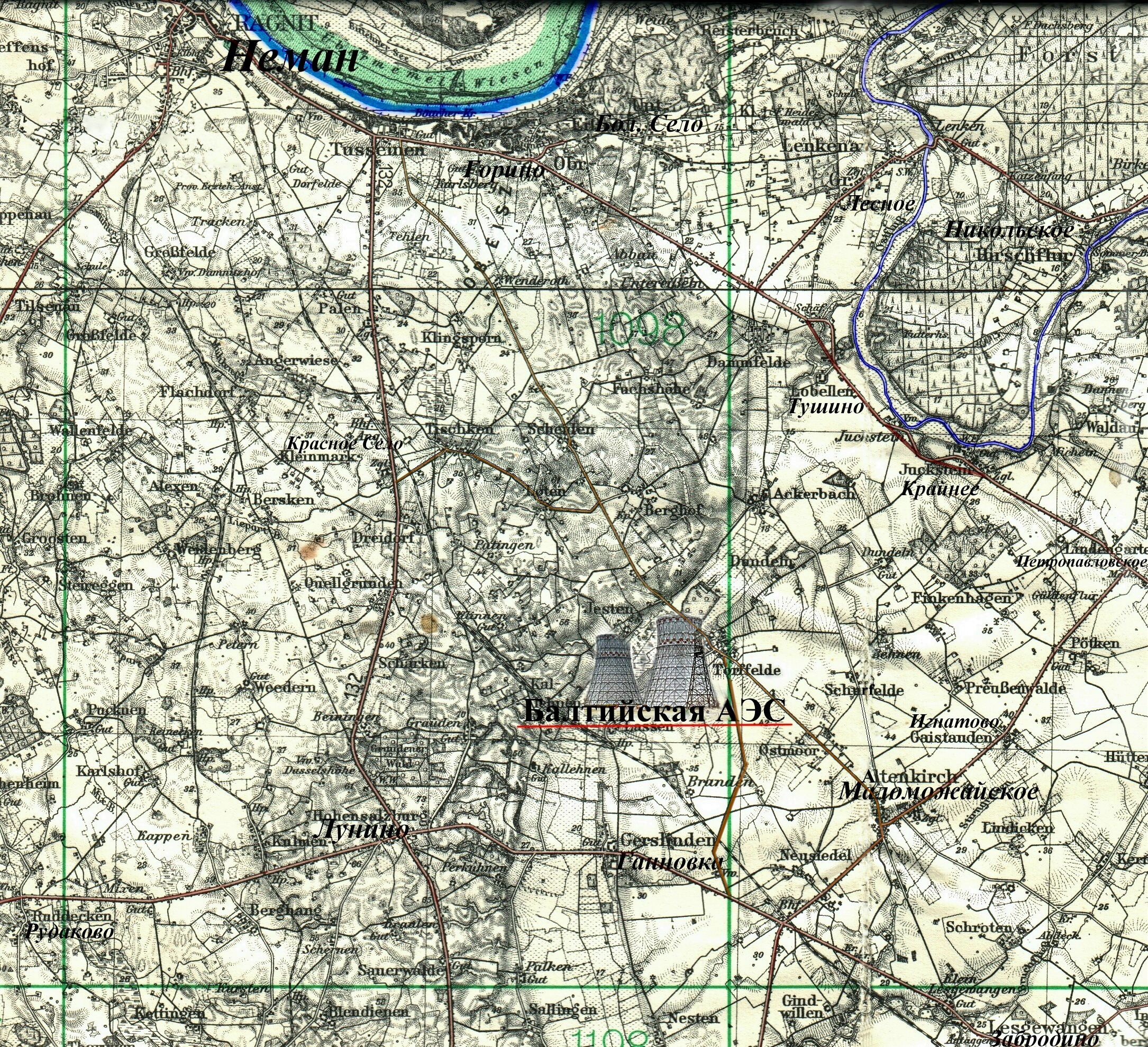 Position of Baltiisk Nuclear Power Plant